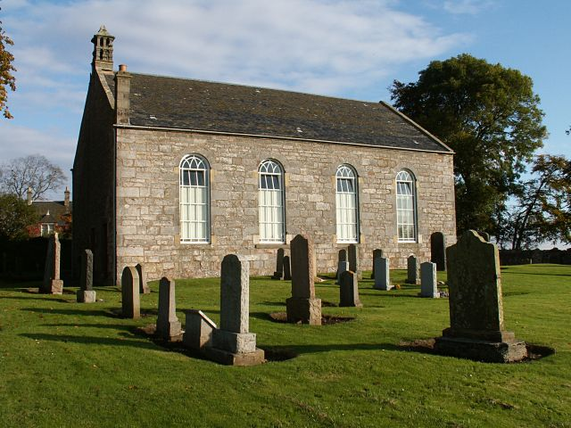 Cameron Church South aspect of the Church.